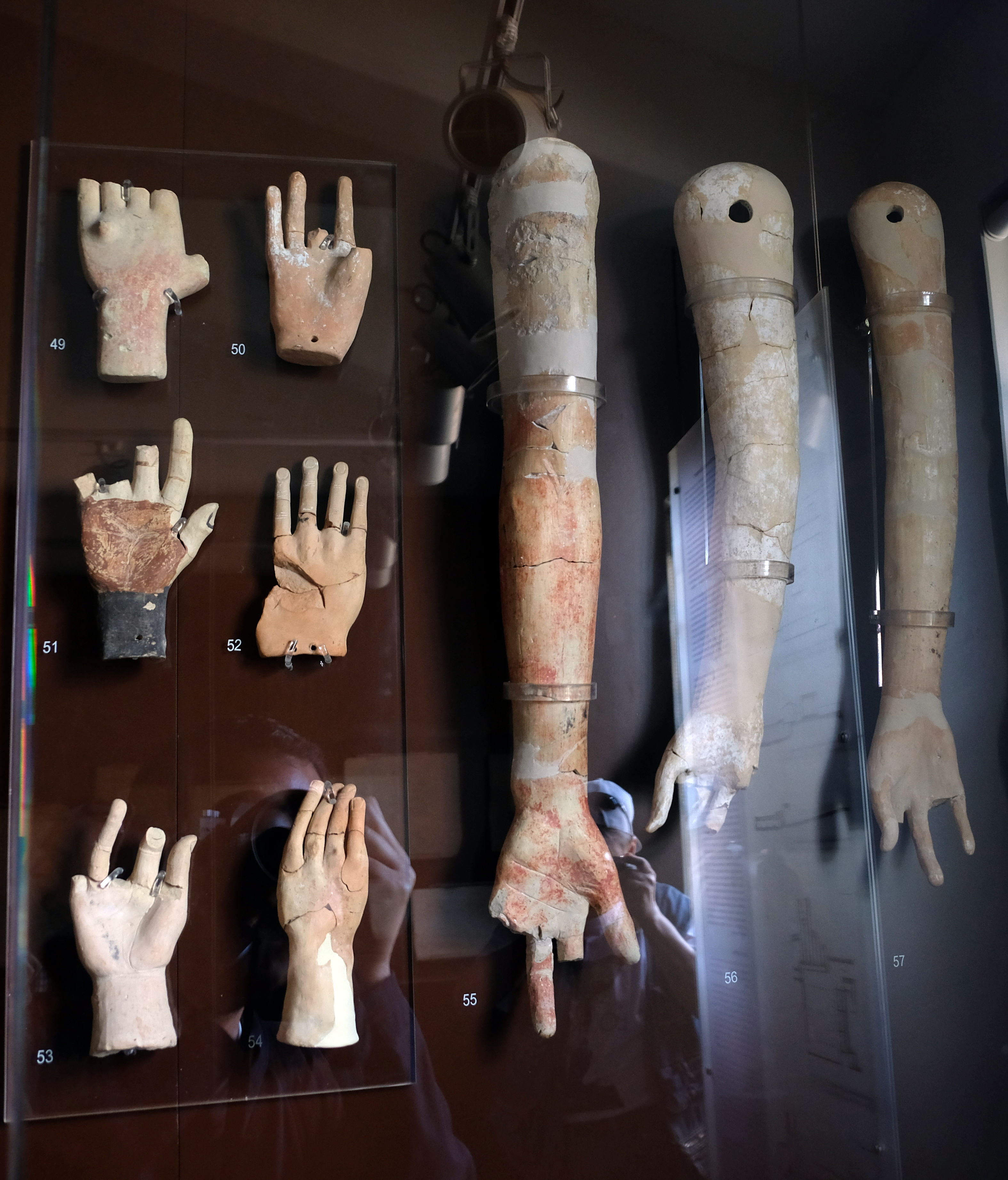 ex voto of Archaeological Museum of Ancient Corinth